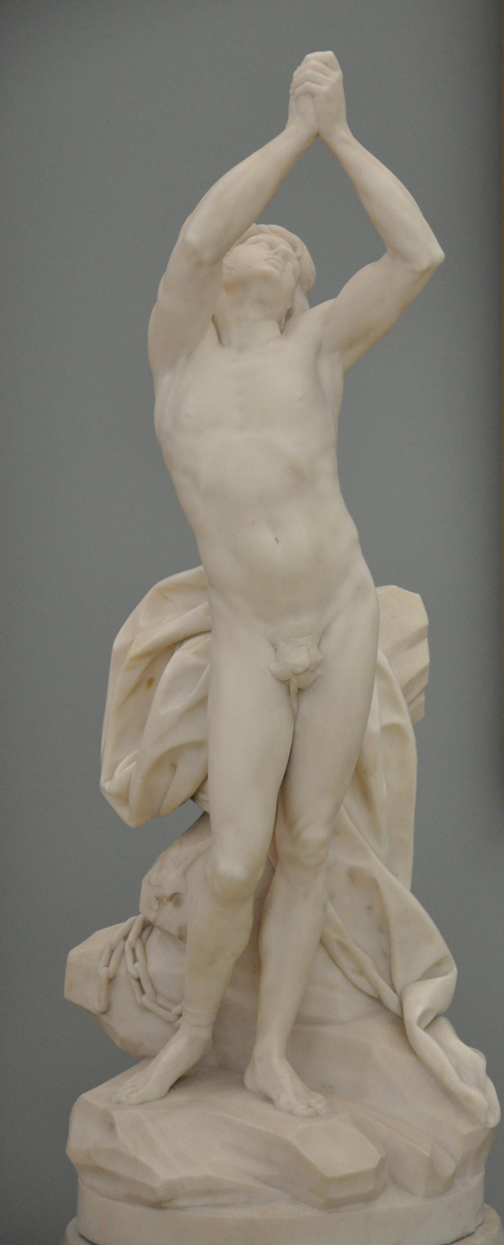 Félix Lecomte (1737-1817), A suffering Slave (1769), marble, musée des beaux-arts de Rouen, France.